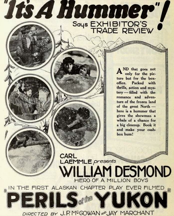 Ad for the American film serial Perils of the Yukon (1922) with William Desmond and Laura La Plante, on page 30 of the August 26, 1922 Universal Weekly.